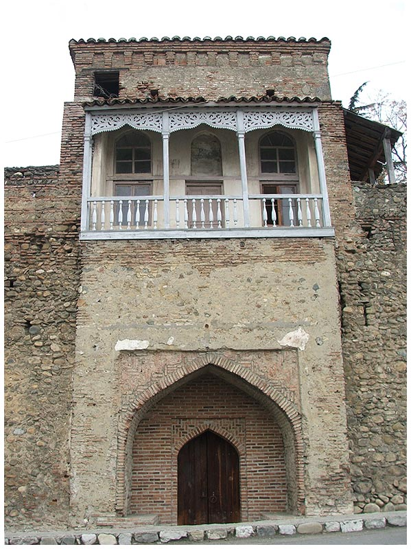 The gate to Palace of King Erekle II, in the city centre (style of persian architectural traditions), 18 century